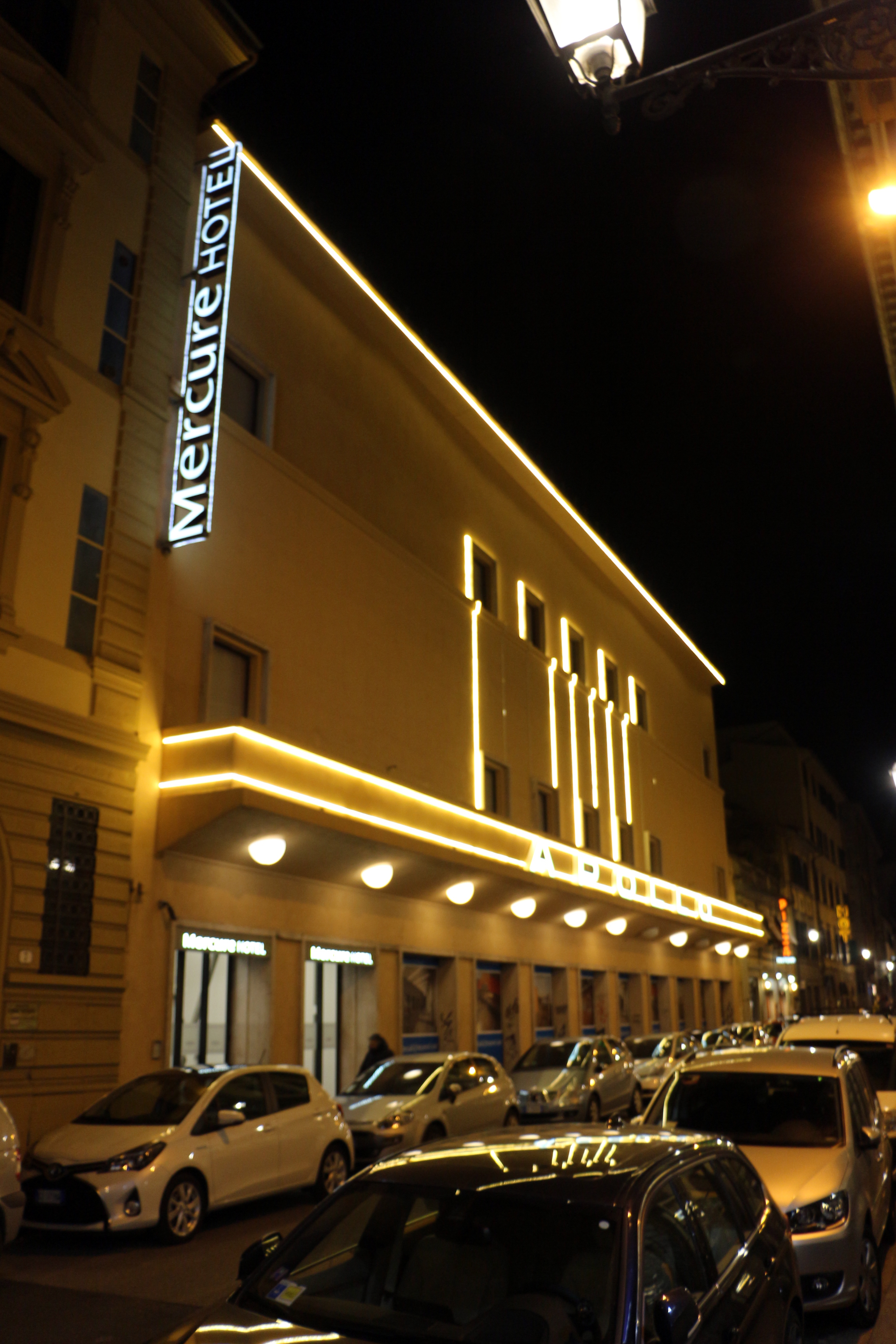 Firenze, miscellanea